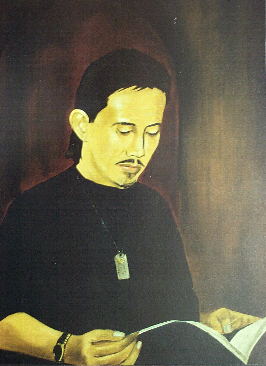 egg tempera on canvas